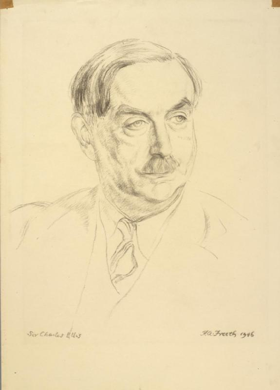 Sir Charles Drummond Ellis, Frs - Scientific Adviser to the Army Council image: A head and shoulder portrait of Sir Charles Drummond Ellis wearing a suit, turning slightly towards the right.